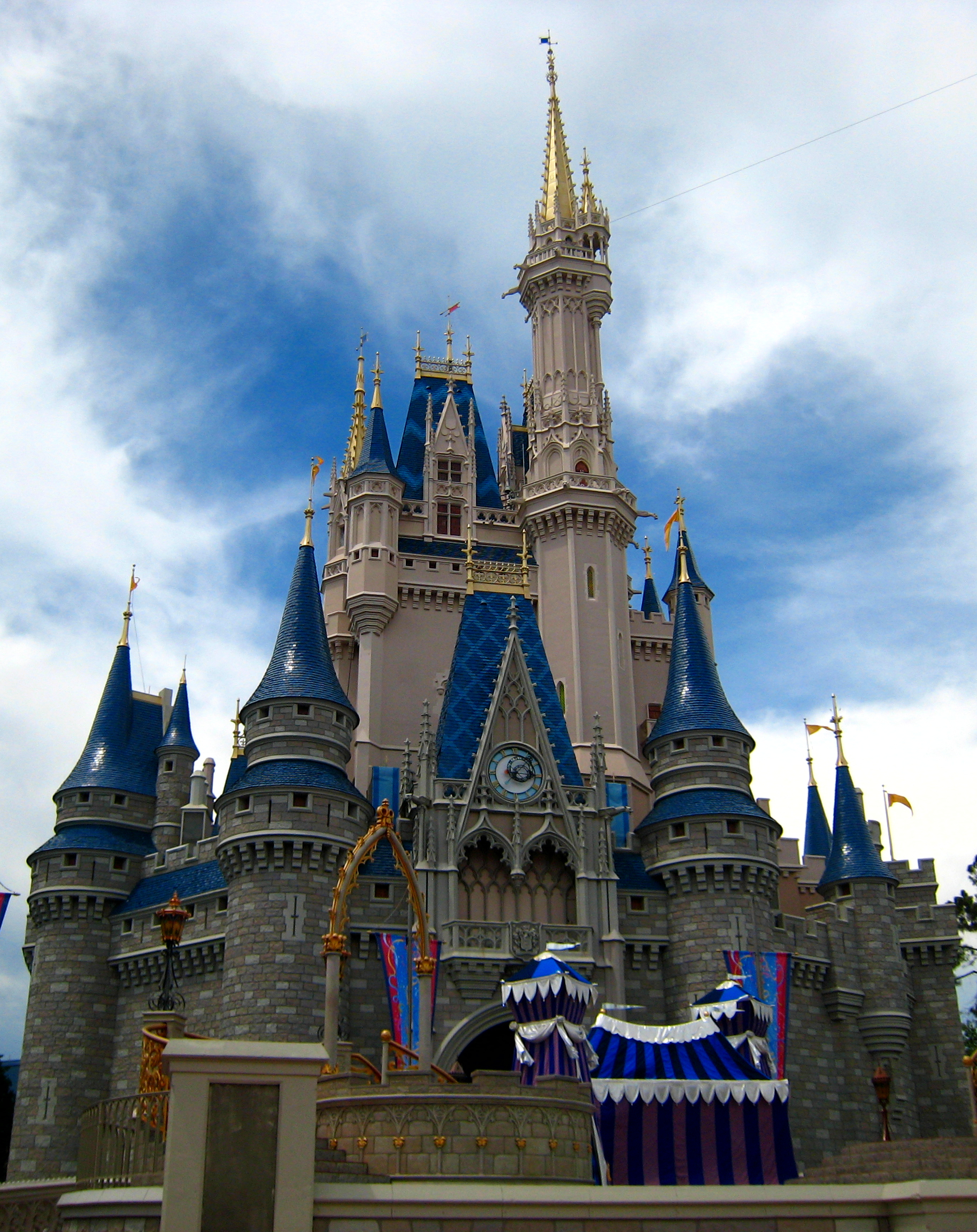 Cinderella Castle in Magic Kingdom, Florida